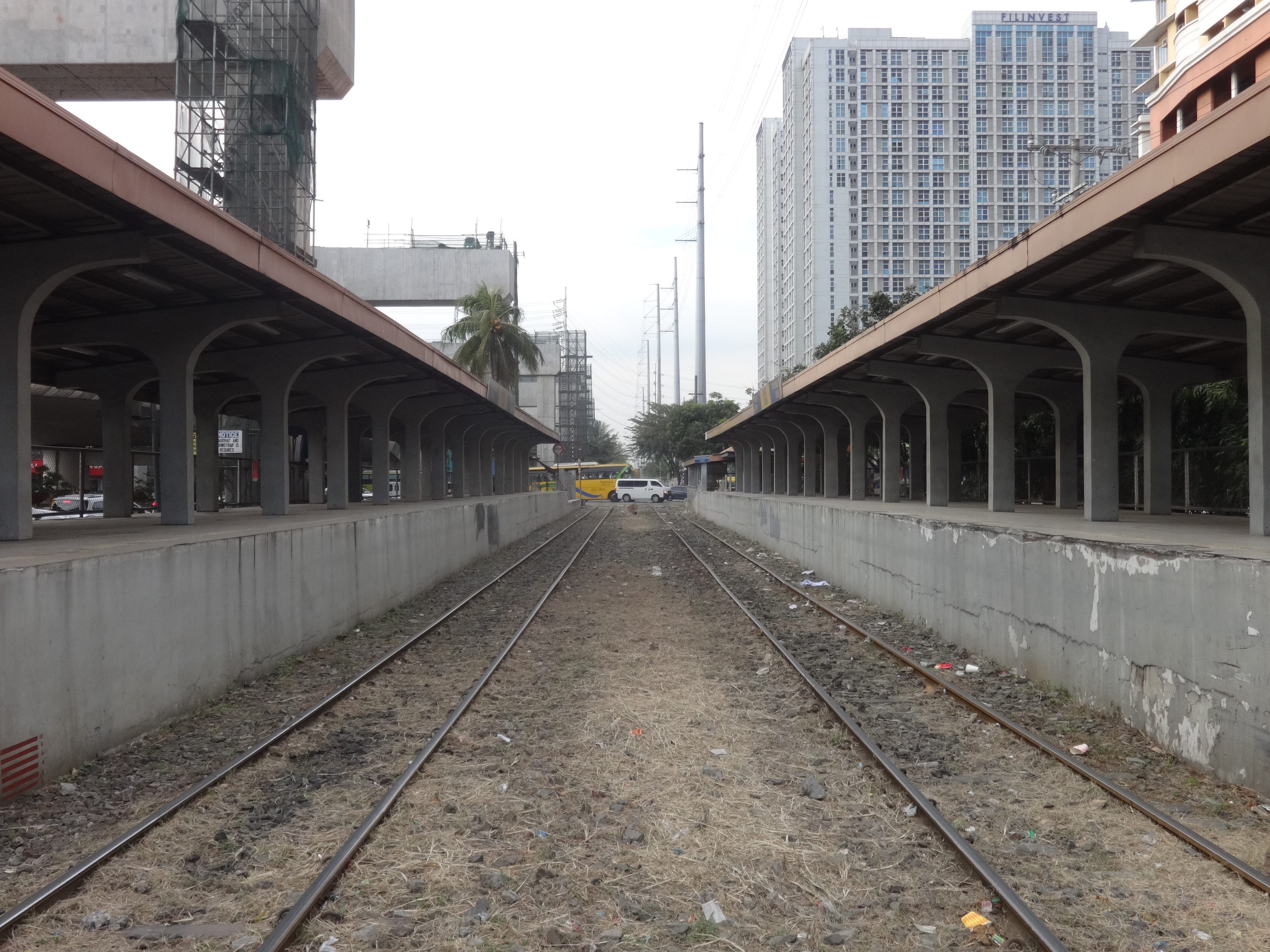 PNR Buendia Station along South Superhighway, Makati